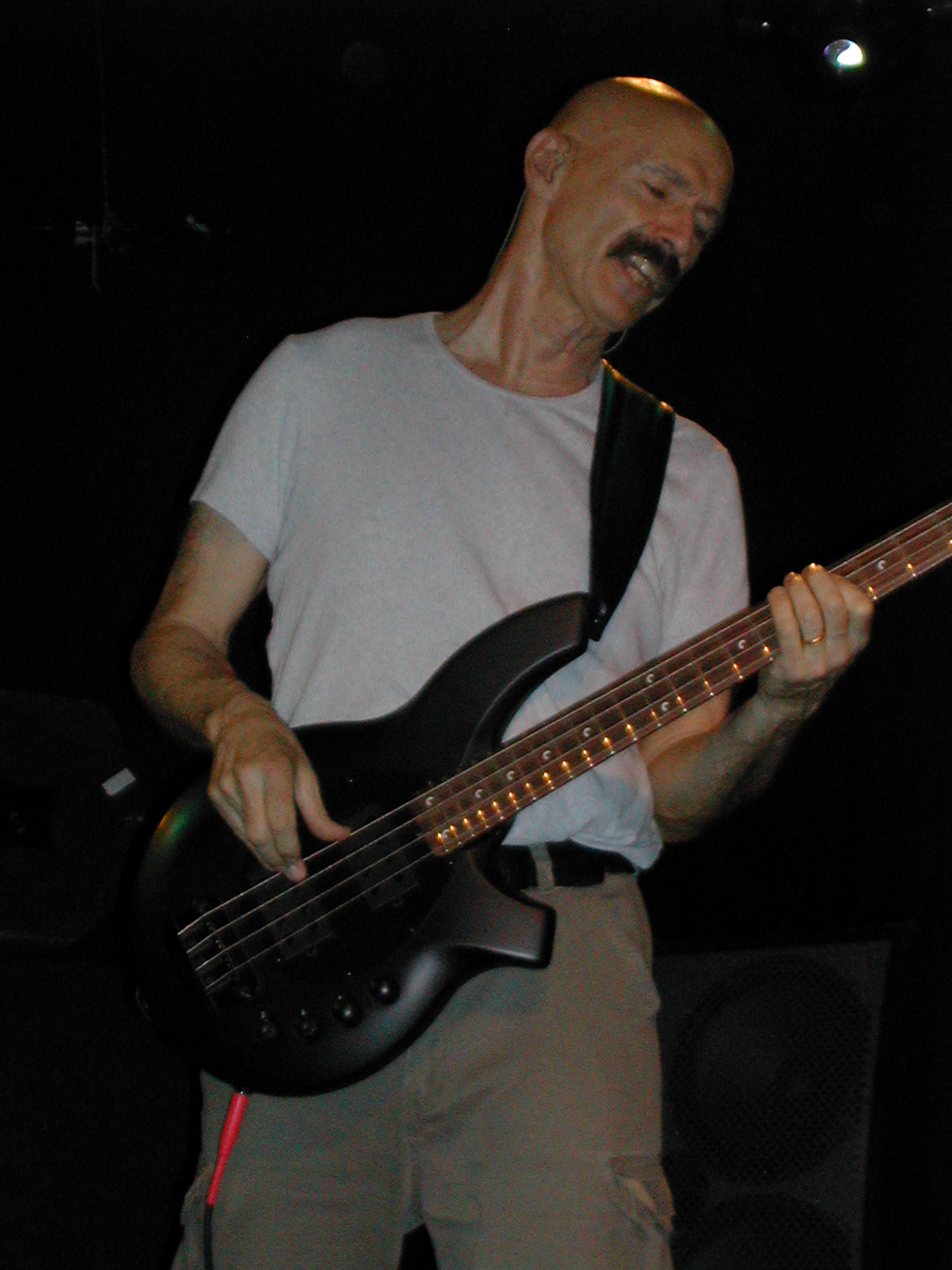 Tony Levin playing the Bongo bass live at Toad's Place, New Haven, CT 2006